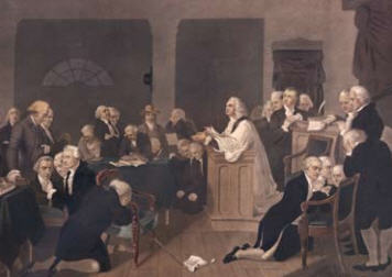 Painting: The Rev Jacob Duche offers the first prayer for the Continental Congress, September 7, 1774, in Philadelphia, PA. Original painting by Tompkins Harrison Matteson, 1848.